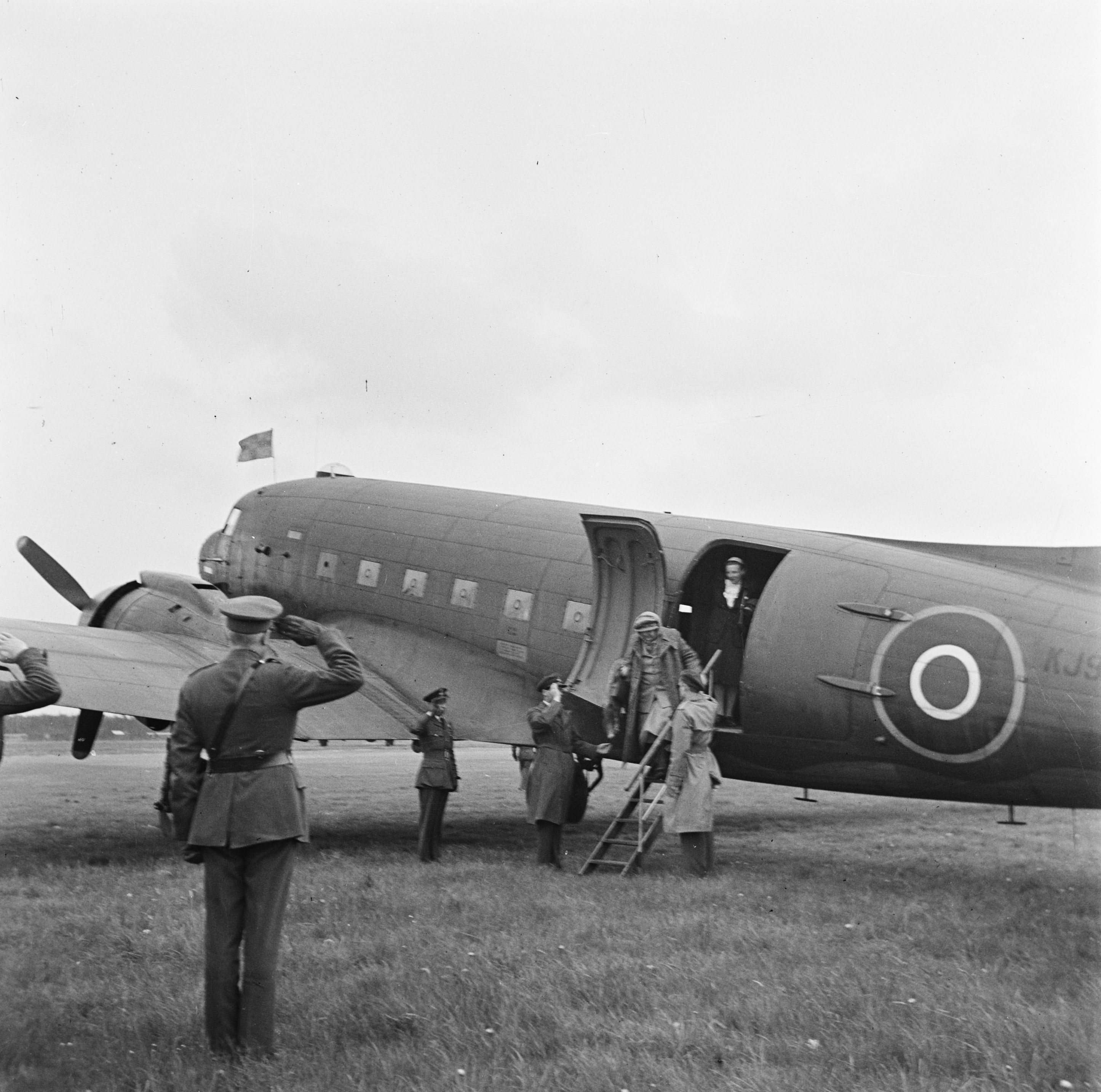 Arrival of the Dakota on airfield Gilze-Rijen, the Queen steps out, followed by Princess Juliana. Left at the aircraft steps E. Hazelhoff Roelfzema, right P. Tazelaar, May 2, 1945 Hebt u meer informatie over deze foto, laat het ons weten. Laat een reactie achter (als u ingelogd bent bij Flickr) of stuur een mailtje naar: Please help us gain more knowledge on the content of our collection by simply adding a comment with information. If you do not wish to log in, you can write an e-mail to: Meer foto’s van het Nationaal Archief zijn te vinden in de fotocollectie op gahetna.nl